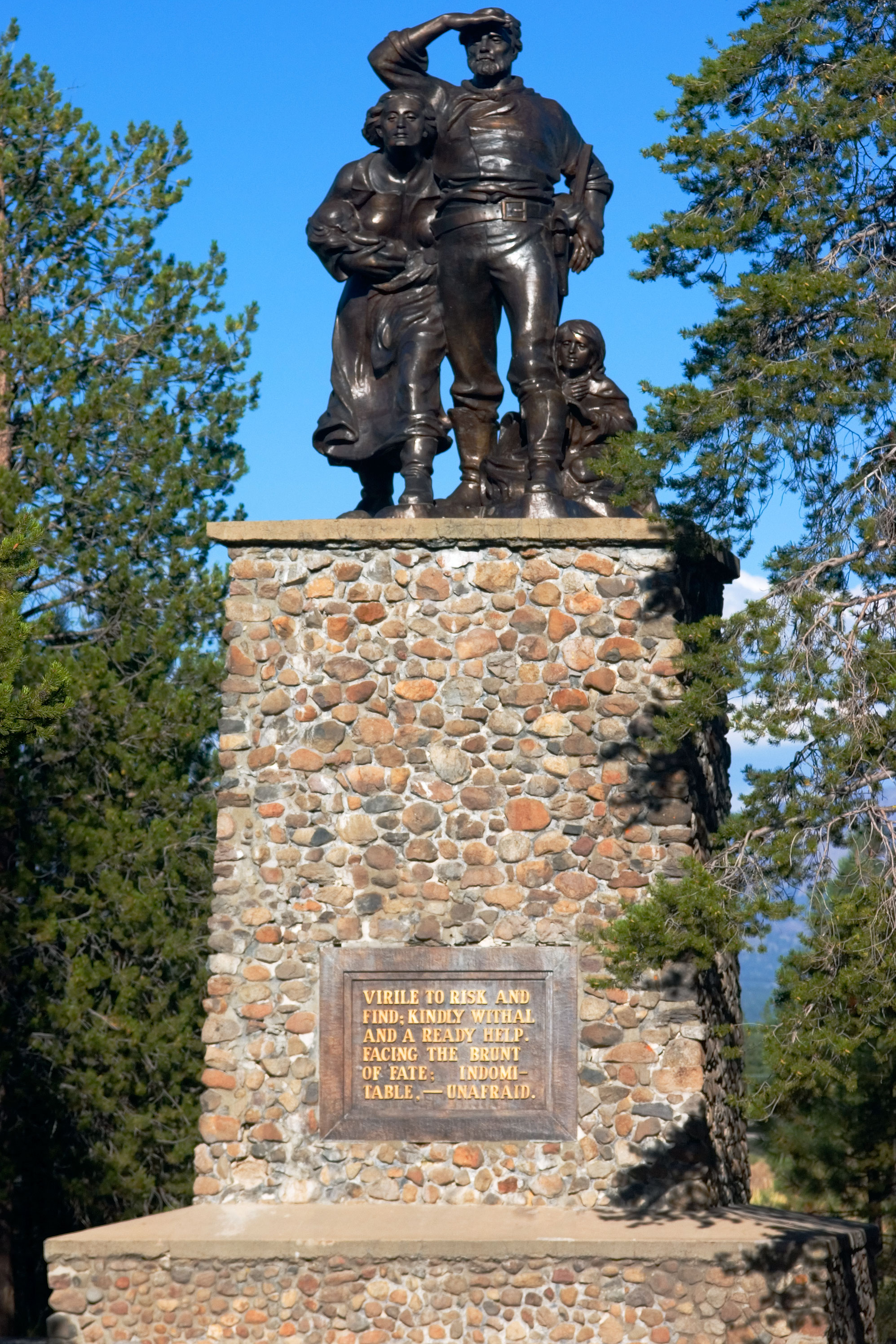 Donner Party Memorial statue: erected in June 1918, the work of art is no longer copyrighted (pre-1923 "publication" in United States).[1]